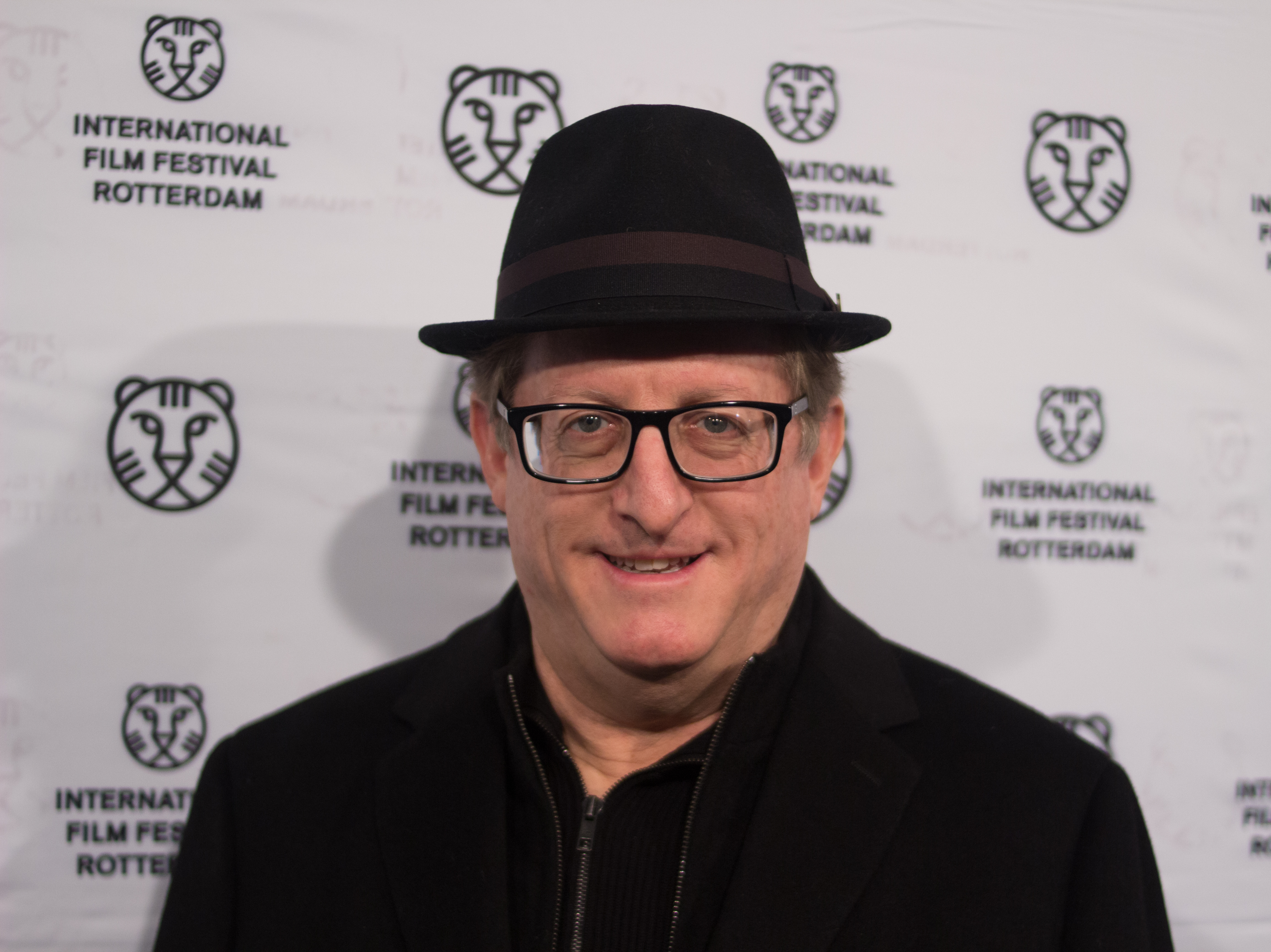 Uri Singer at the premier of "Marjorie Prime"